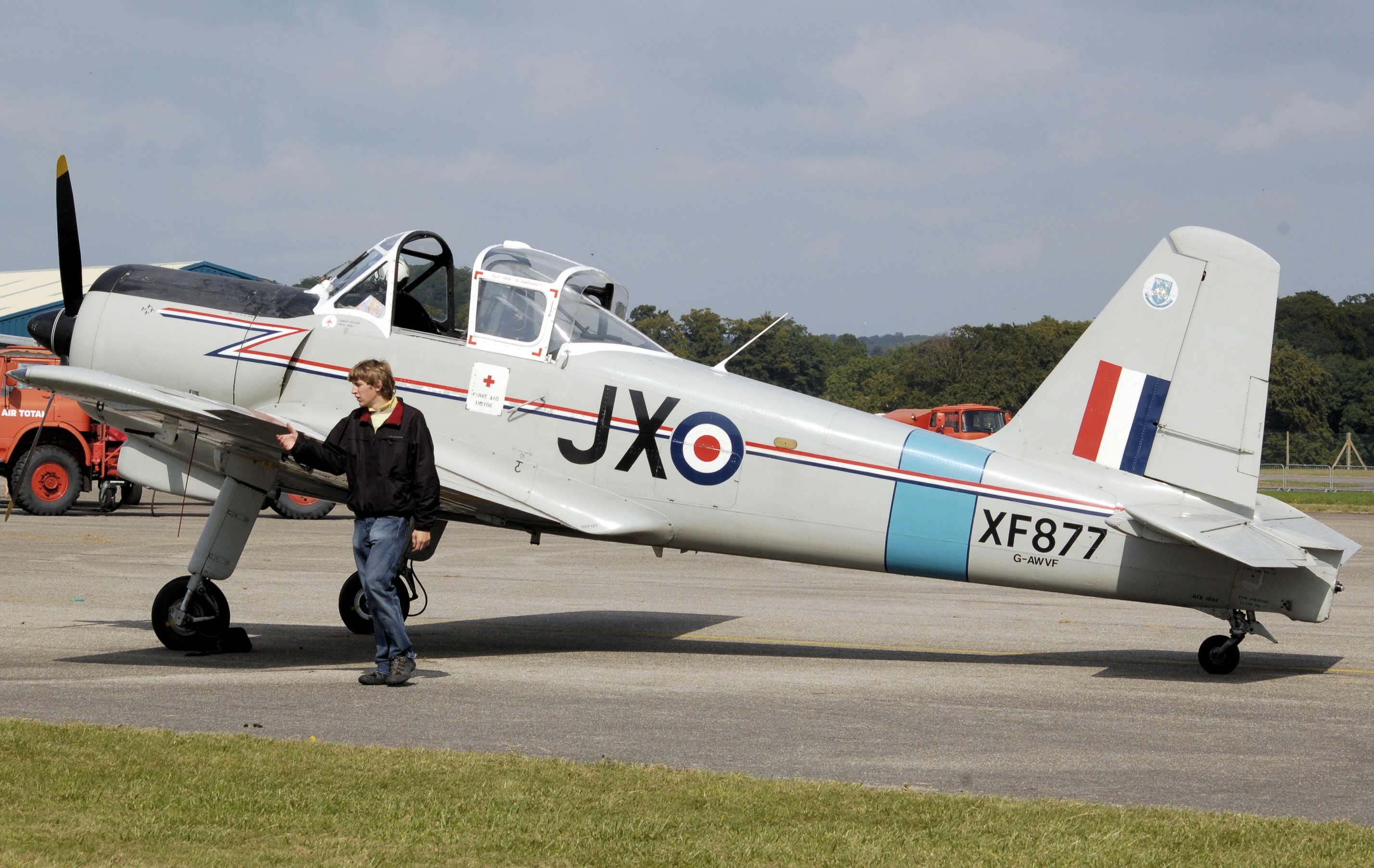 Privately-owned Percival P.56 Provost T1 (XF877, JX, G-AWVF) at Kemble Airport Open Day (Gloucestershire, England), September 9th 2007. Built 1955 by the Percival Aircraft Company. Photographed by Adrian Pingstone and placed in the public domain.